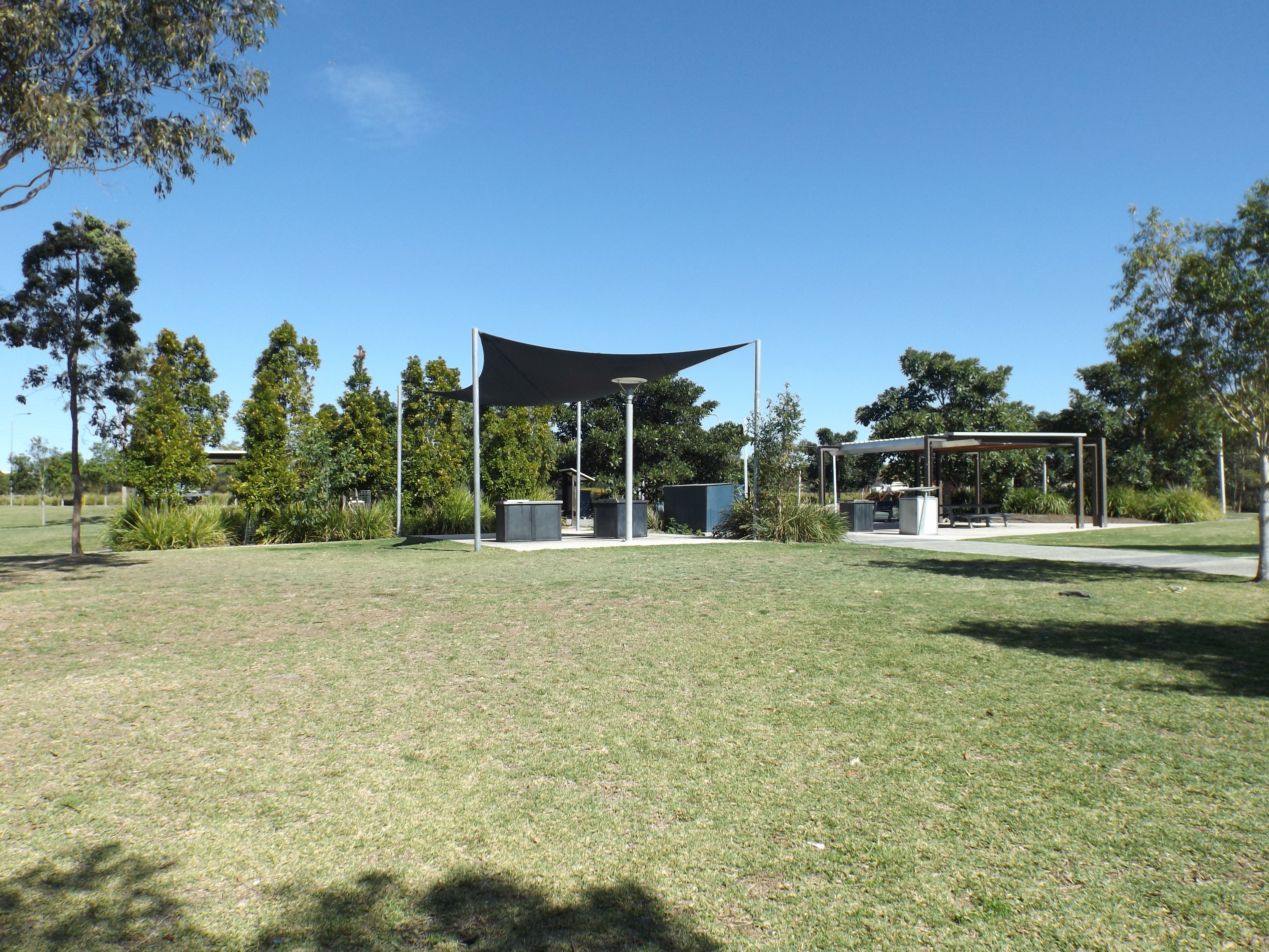 Photo of Berrinba Wetlands picnic area at Berrinba, Logan City, Queensland, Australia.